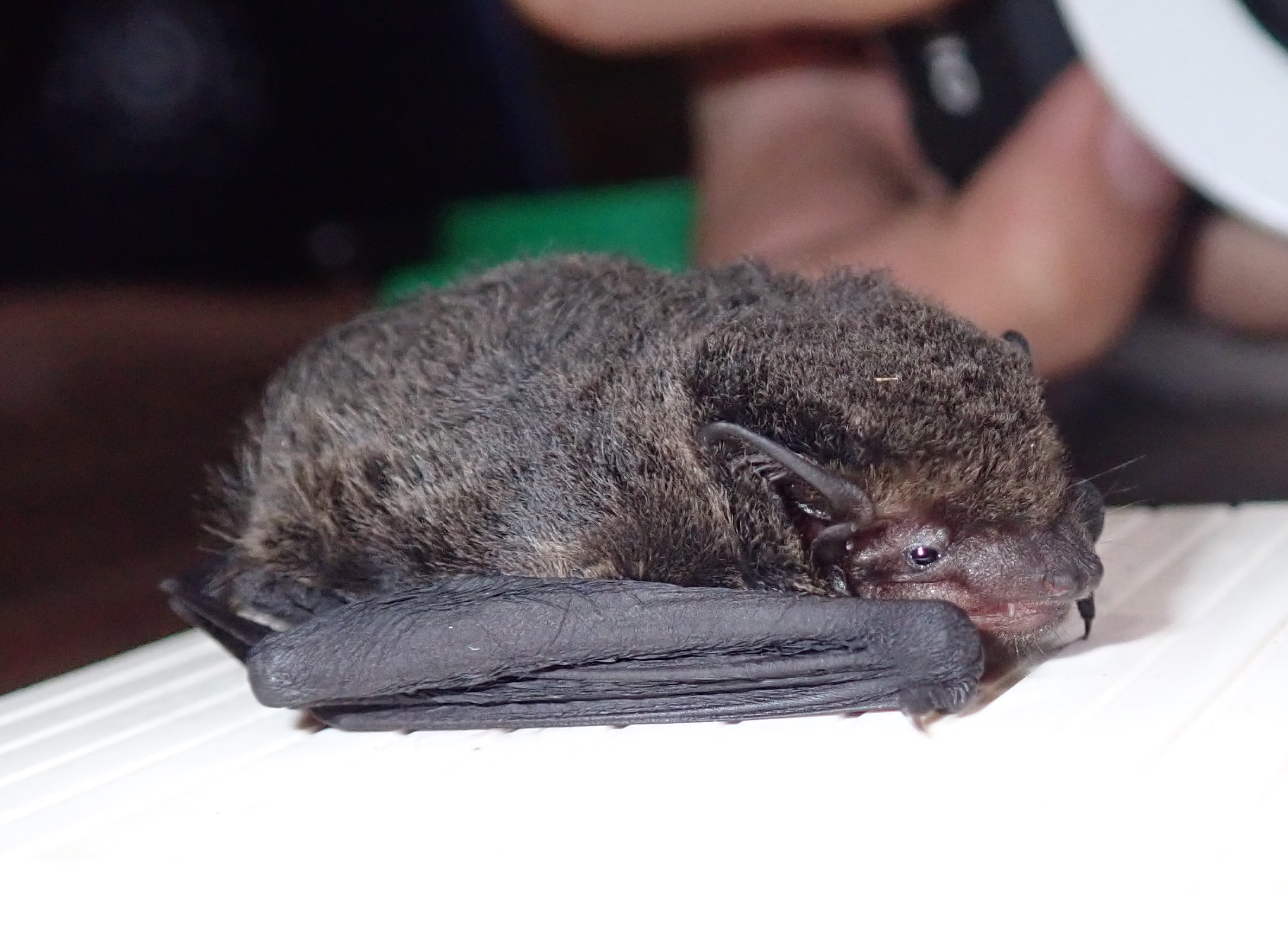 Endo's Pipistrelle, Pipistrellus endoi